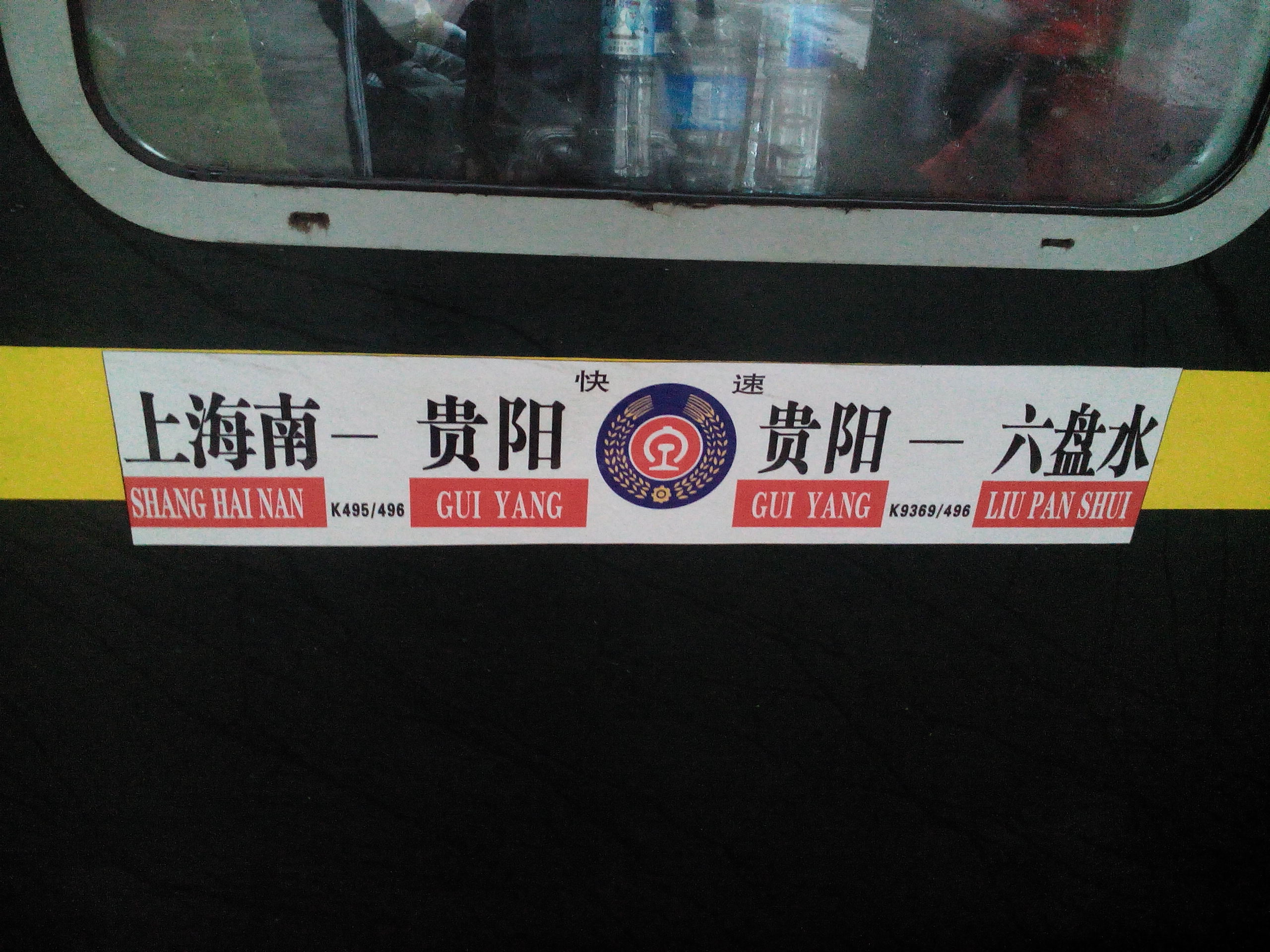 Shanghainan-K495-Guiyang-K9369-Liupanshui-K496-Shanghainan